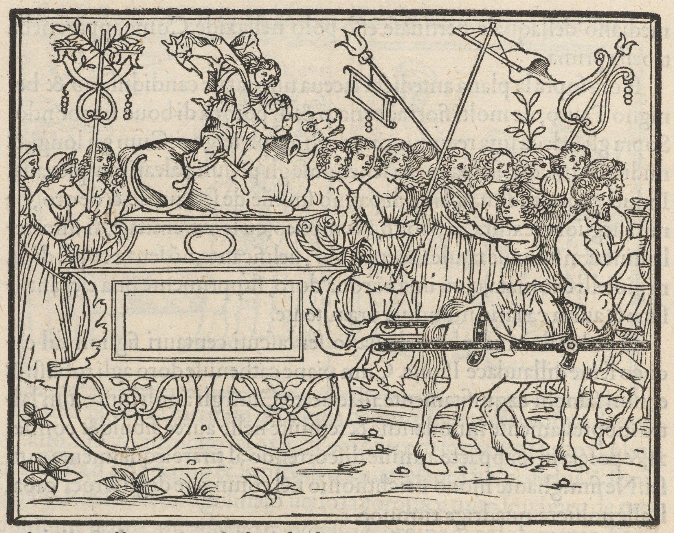 Illustration from Hypnerotomachia Poliphili, Venice: 1499, by Francesco Colonna. WKR 3.5.4, Houghton Library, Harvard University